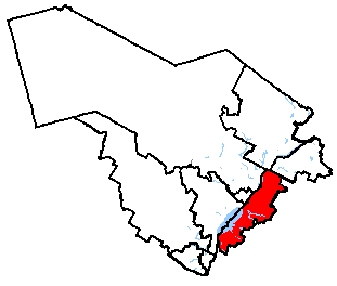 Map of the electoral district of Bas-Richelieu–Nicolet–Bécancour.